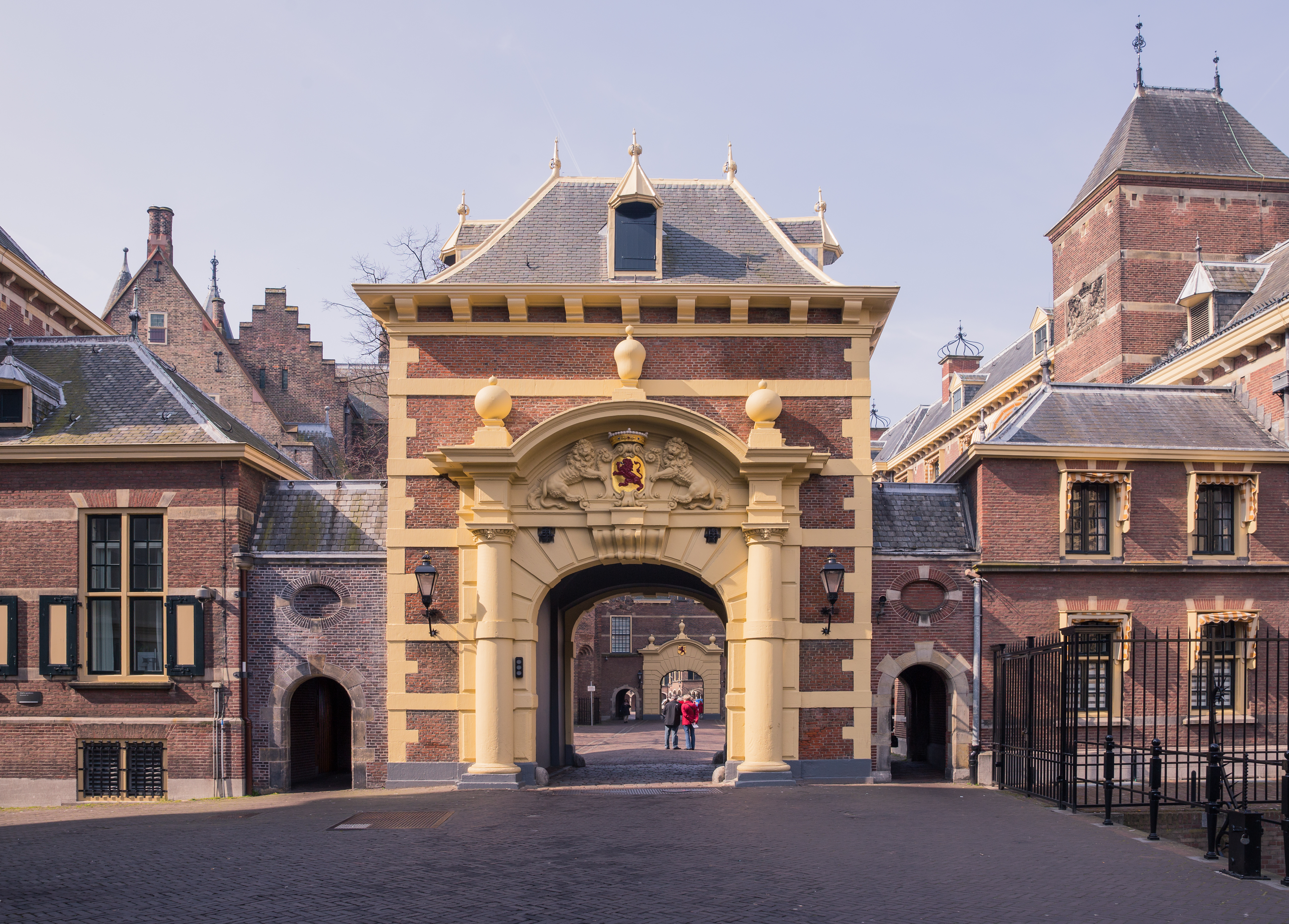 Binnenhof, The Hague